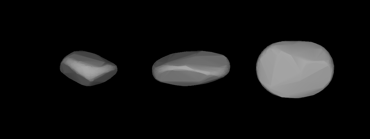 A three-dimensional model of 5960 Wakkanai that was computed using light curve inversion techniques.